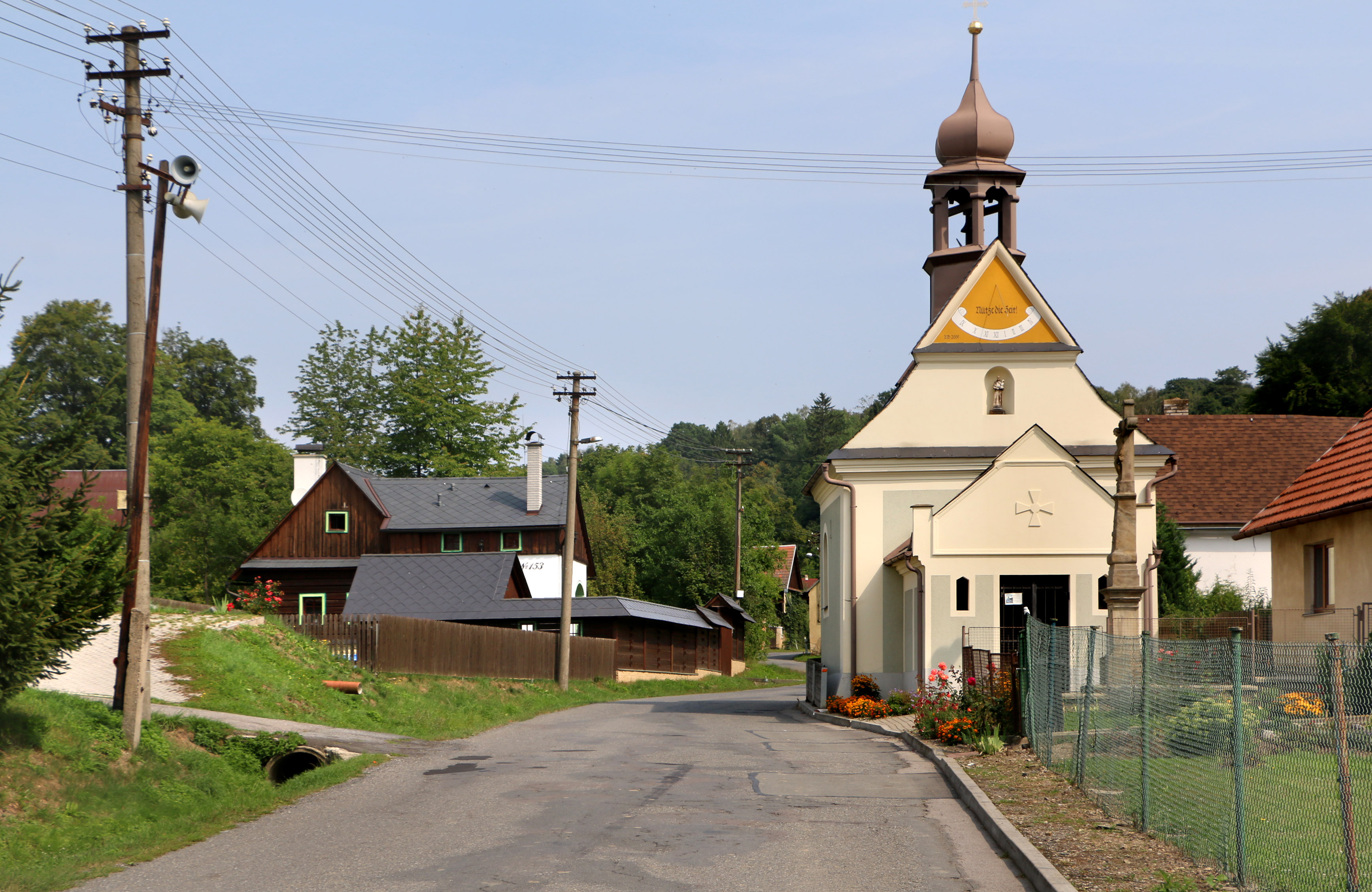 Middle part of Pohledy, Czech Republic.